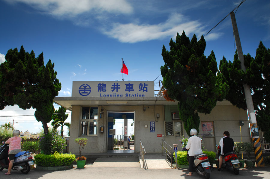 LongJing Station is a local train station of Taiwan's Western main rail line. It's the main station of LongJing Township, TaiChung County.